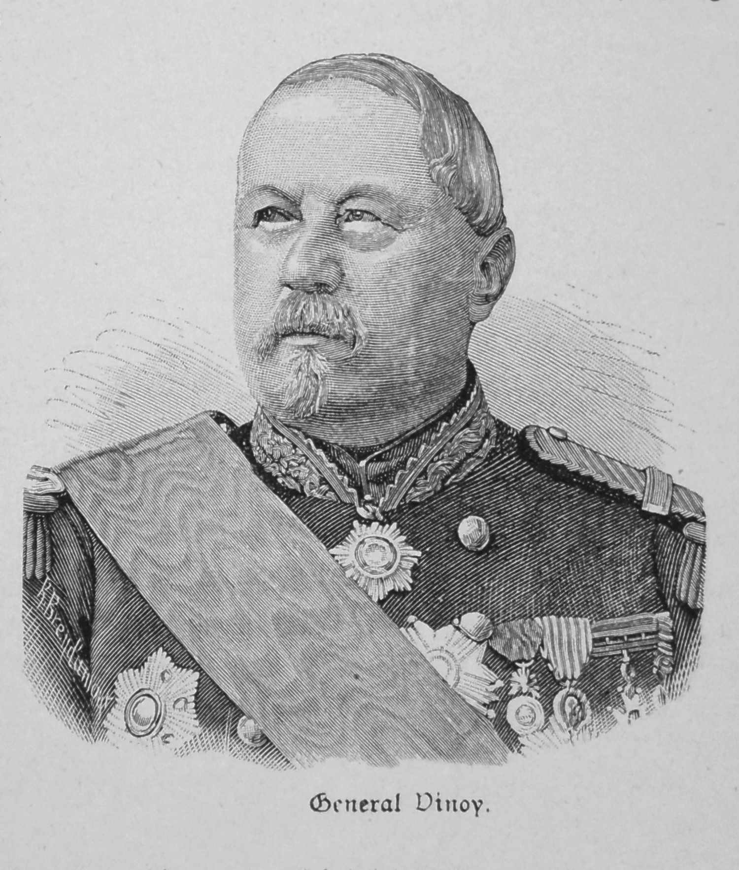 generalen:Joseph Vinoy